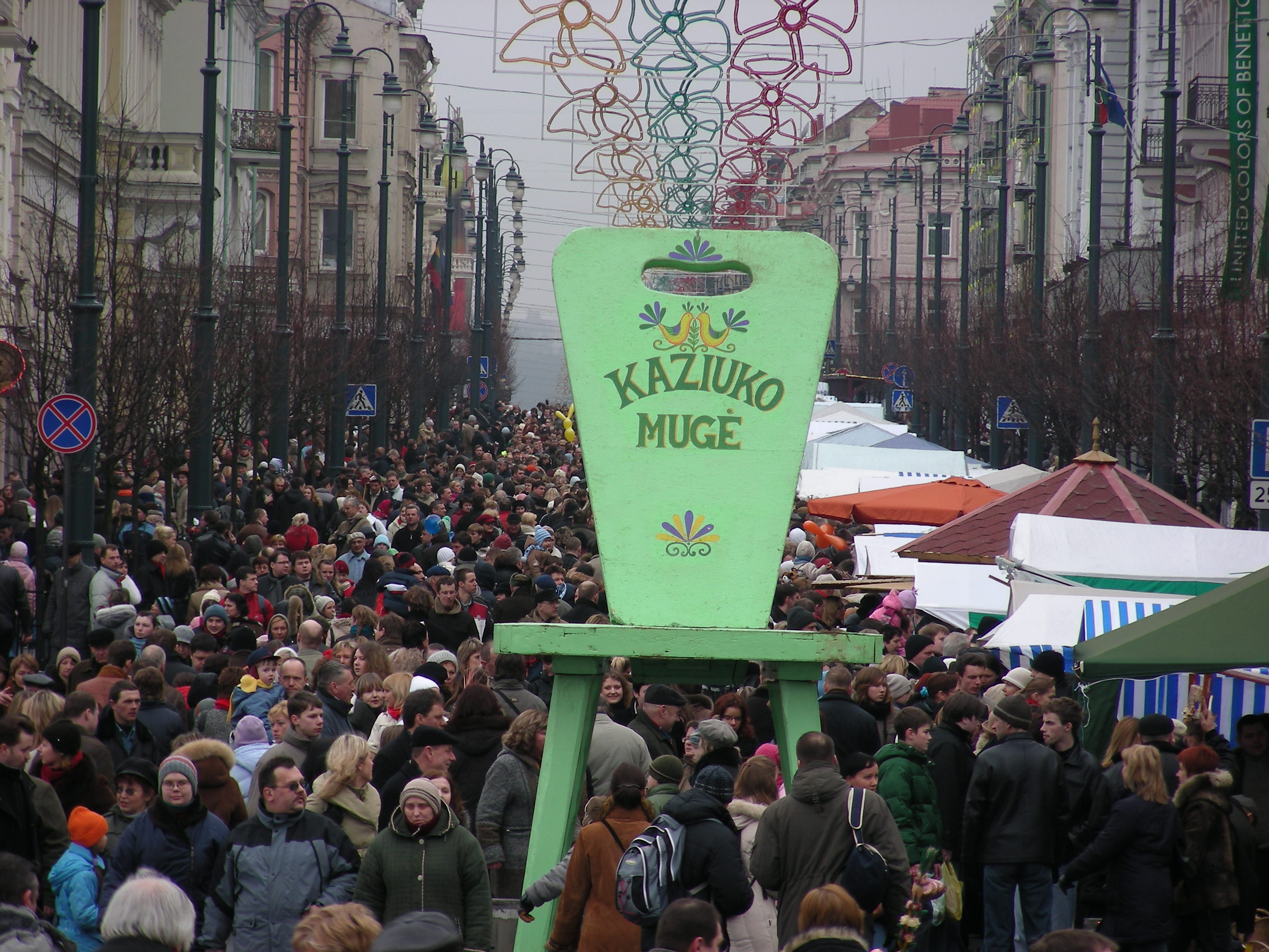 Kaziukas fair on Gediminas Avenue, Vilnius, Lithuania, in 2007